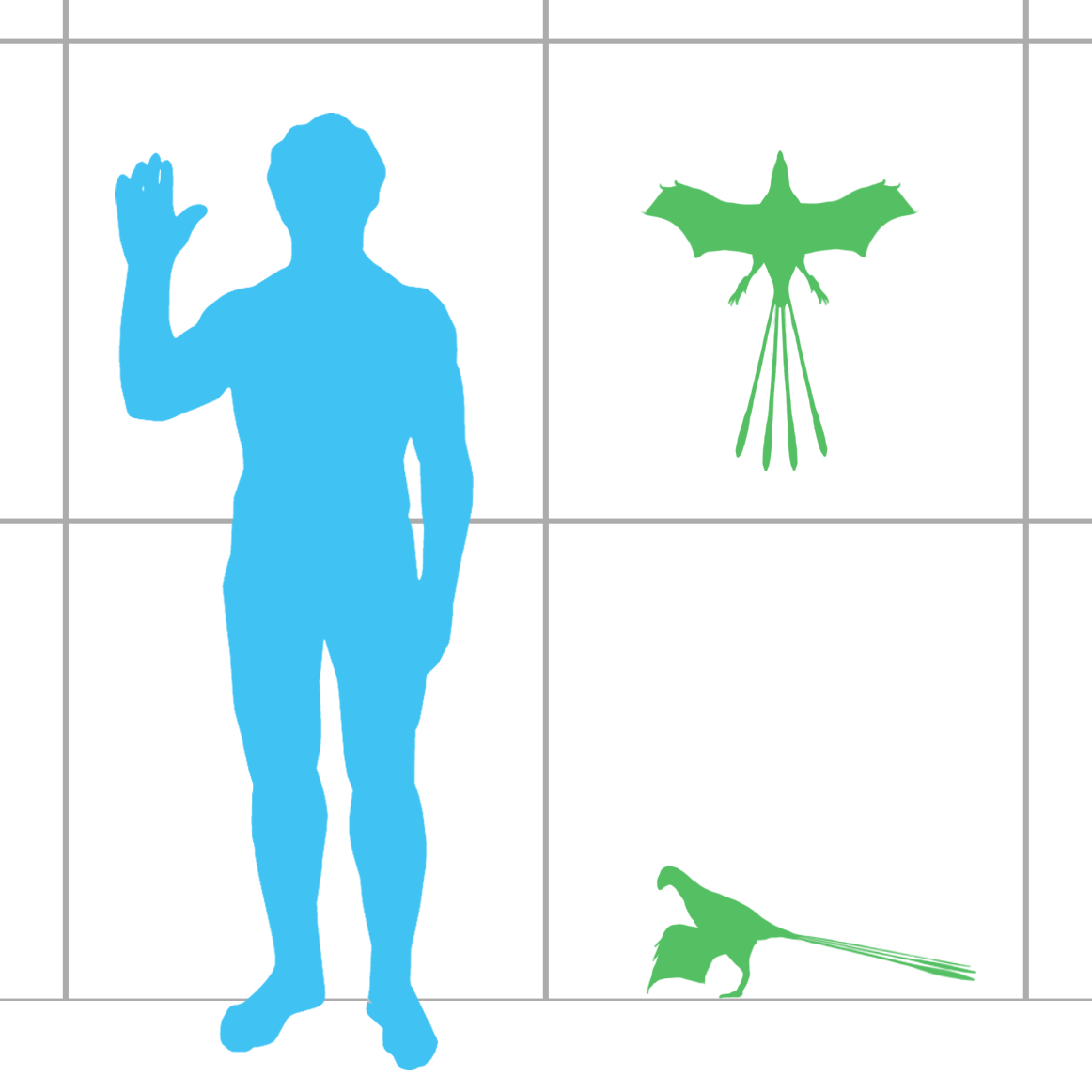 Size of the scansoriopterygid Yi qi (holotype specimen) compared with a human. Tail reconstructed after Epidexipteryx hui.